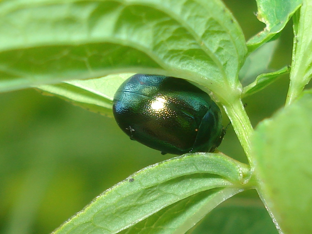 Chrysolina globipennis